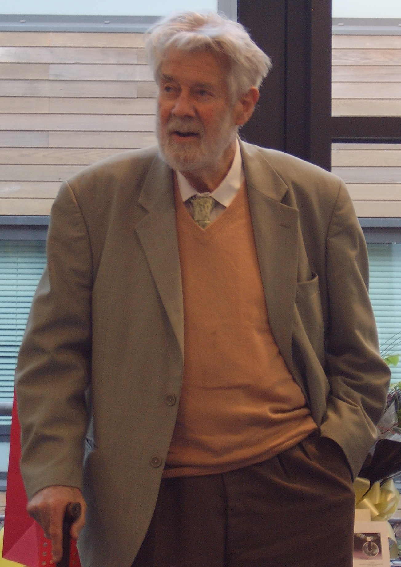 Photograph of the British Mathematician Christopher Zeeman.